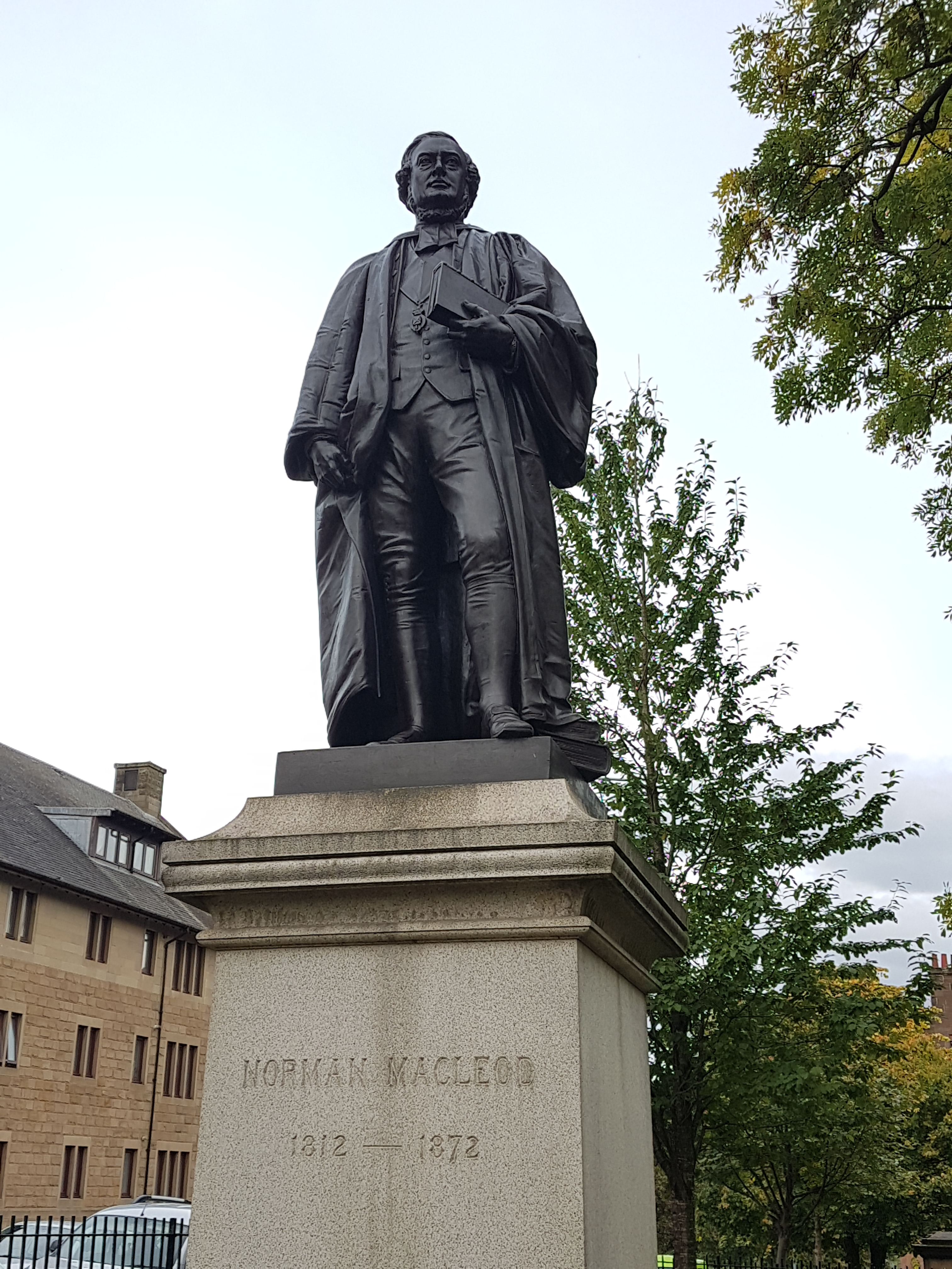 Cathedral Square, Statue To Reverend Dr Norman Macleod Wikidata has entry Q17811590 with data related to this item.